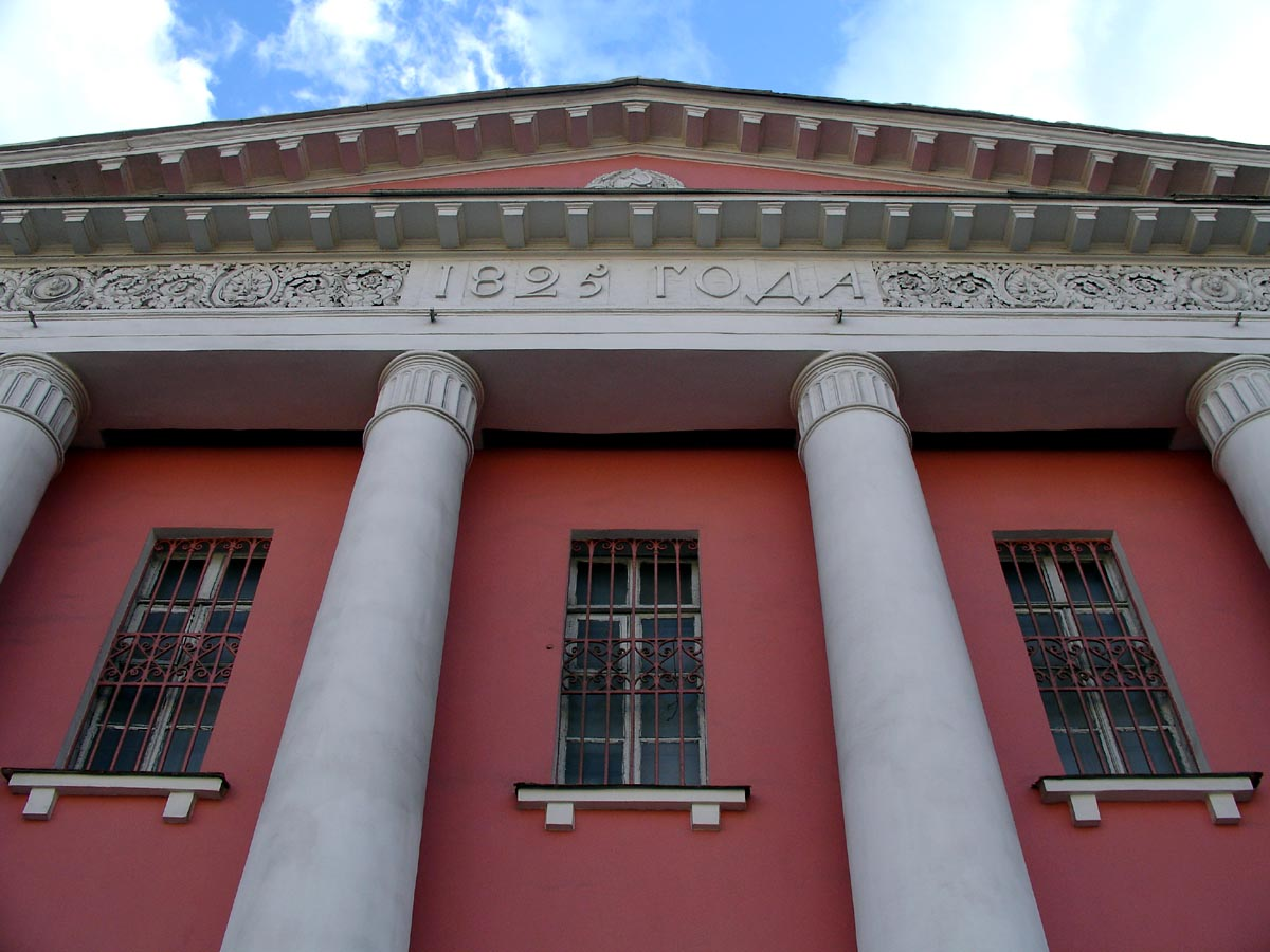 12 Novaya Square, Moscow. Former Church of John the Theosof, present-day Museum of Moscow History. One of the many buildings erected after the Fire of Moscow (1812) that destroyed this neighborhood.